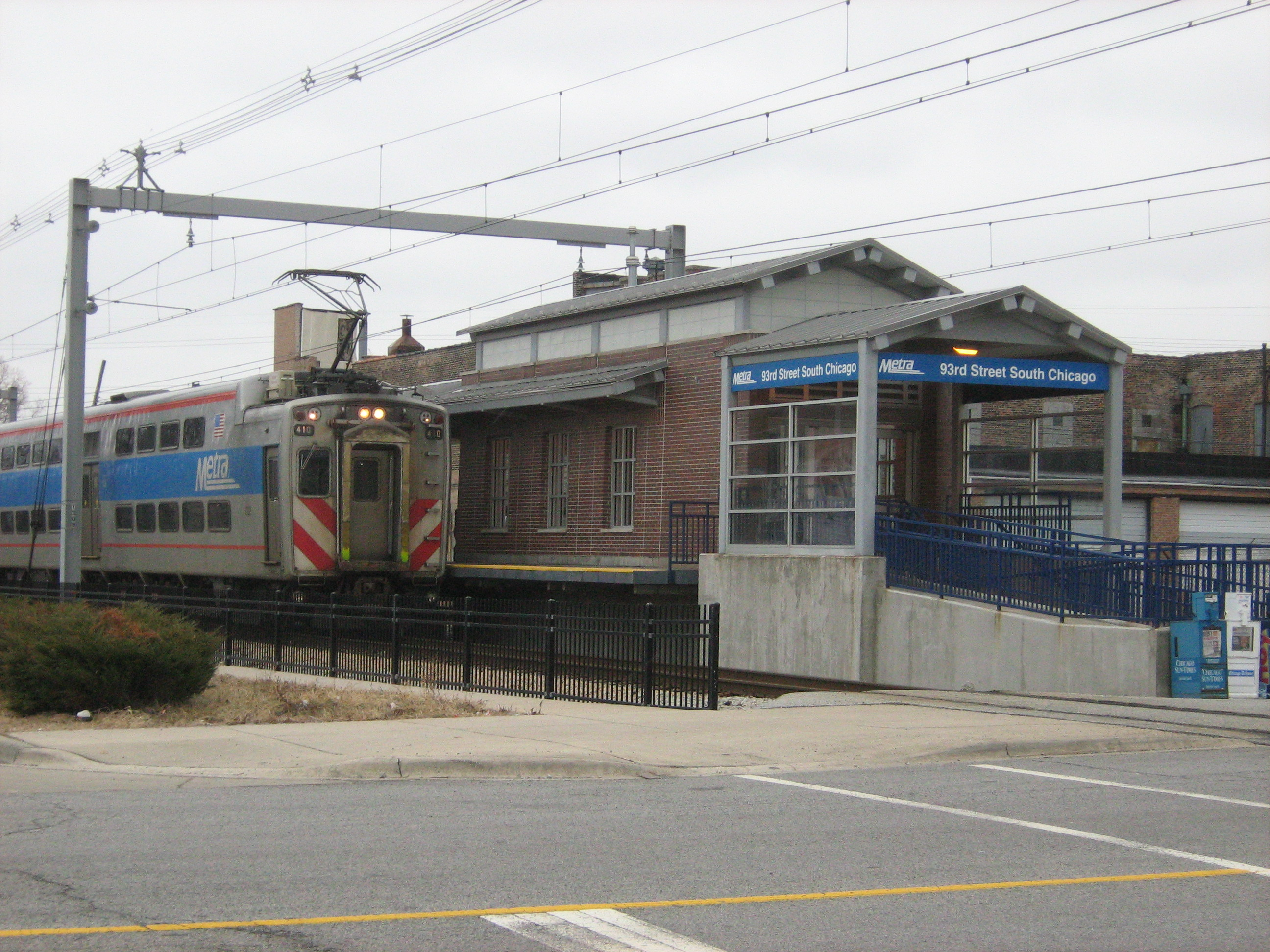 93rd Street and Baltimore Avenue Metra Electric Line (South Chicago Branch) Zone B